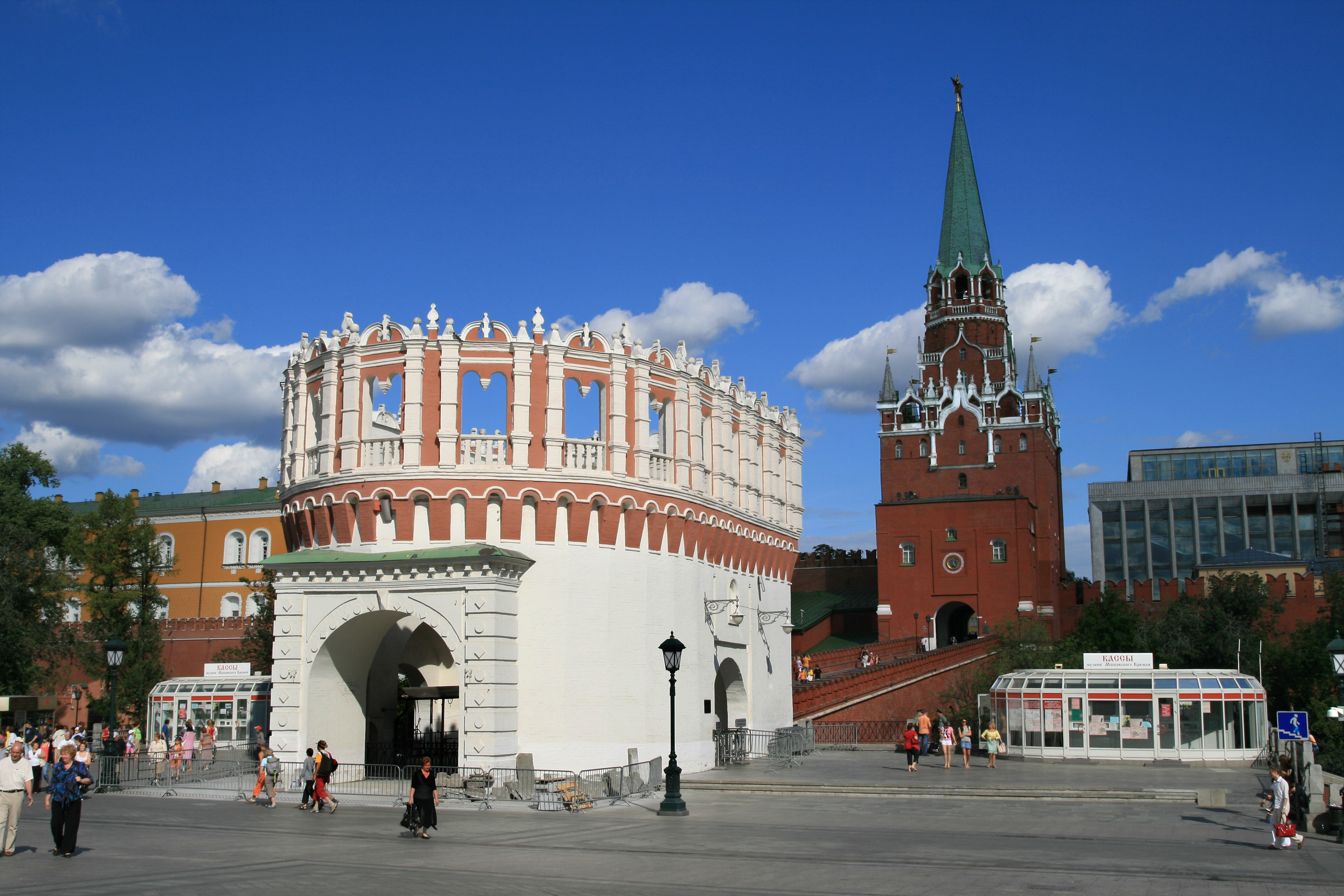 The Kutafya Tower on this side of the bridge and the Troitskaya Tower, forming a part of the Kremlin wall, on the other side. The Troitskaya Tower, built in 1495, is remarkably similar to the Spasskaya Tower and almost rivals that tower in imporance. Including the red star, added in 1937, the tower is a total of 80 meters high and thus the tallest of all the Kremlin towers. Today Troitskaya Tower is the main entrance for tour groups visiting the Kremlin. But it was our exit.